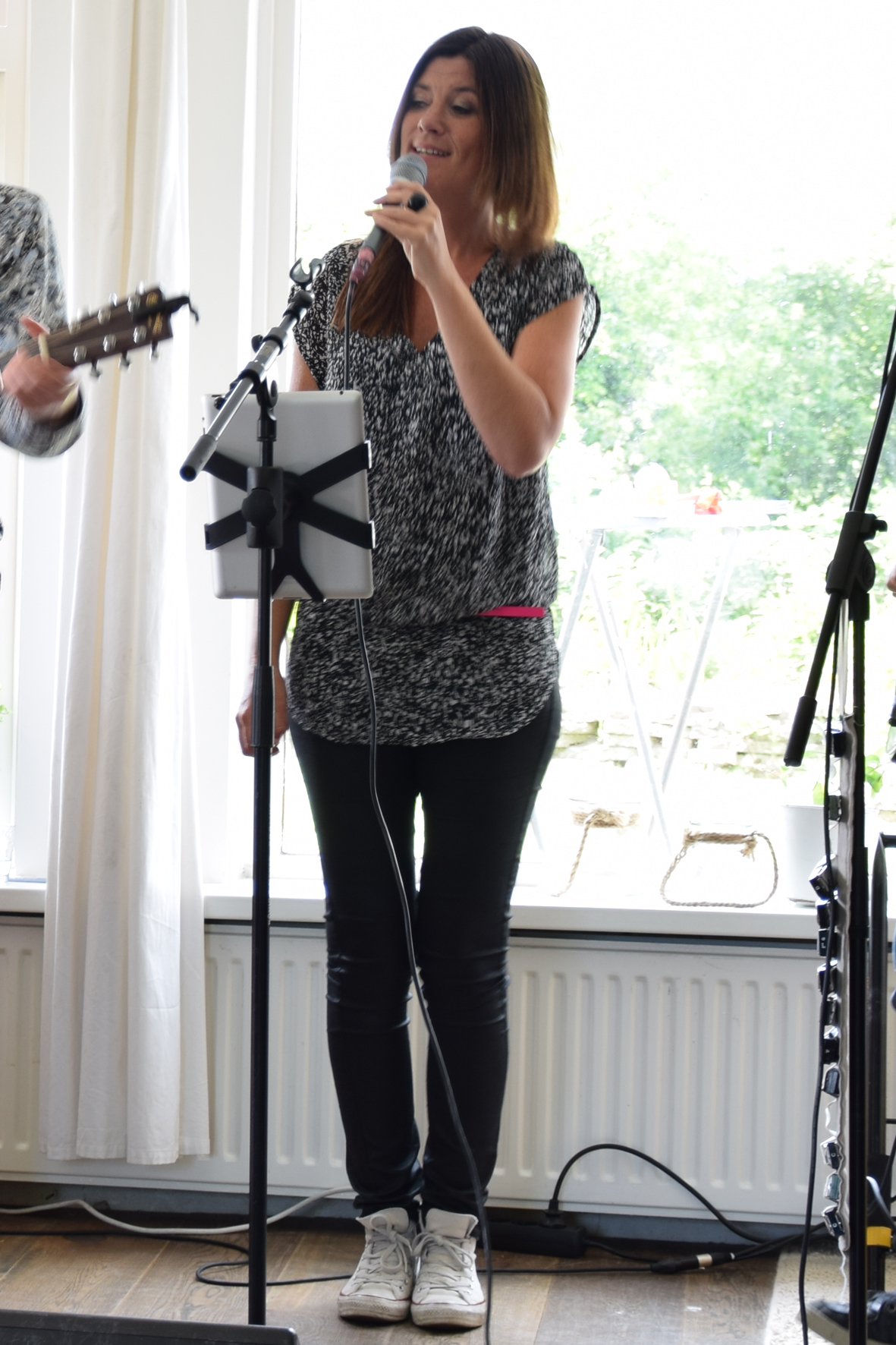 Picture of Susanna Fields (Suzanne van der Velde) at a livingroom concert for Psalmen voor Nu in Deventer, The Netherlands, June 15, 2014.